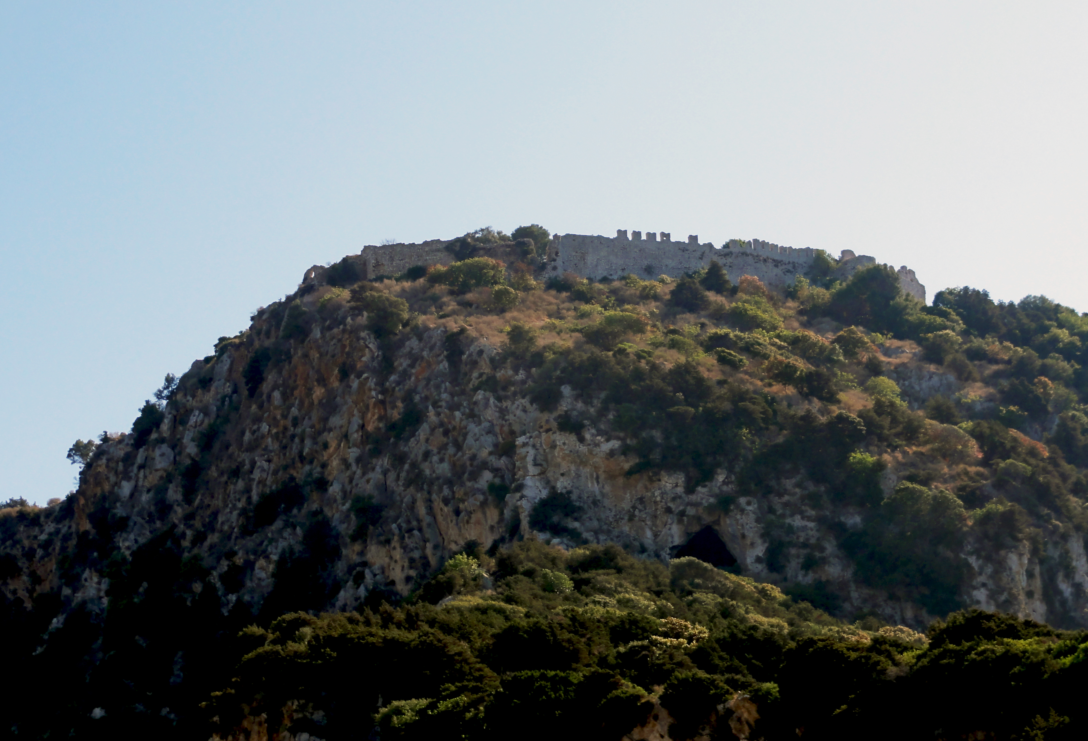 View from Voidokilia beach of the Palaiokastro ('Old Navarino Castle') and Nestor's Cave.